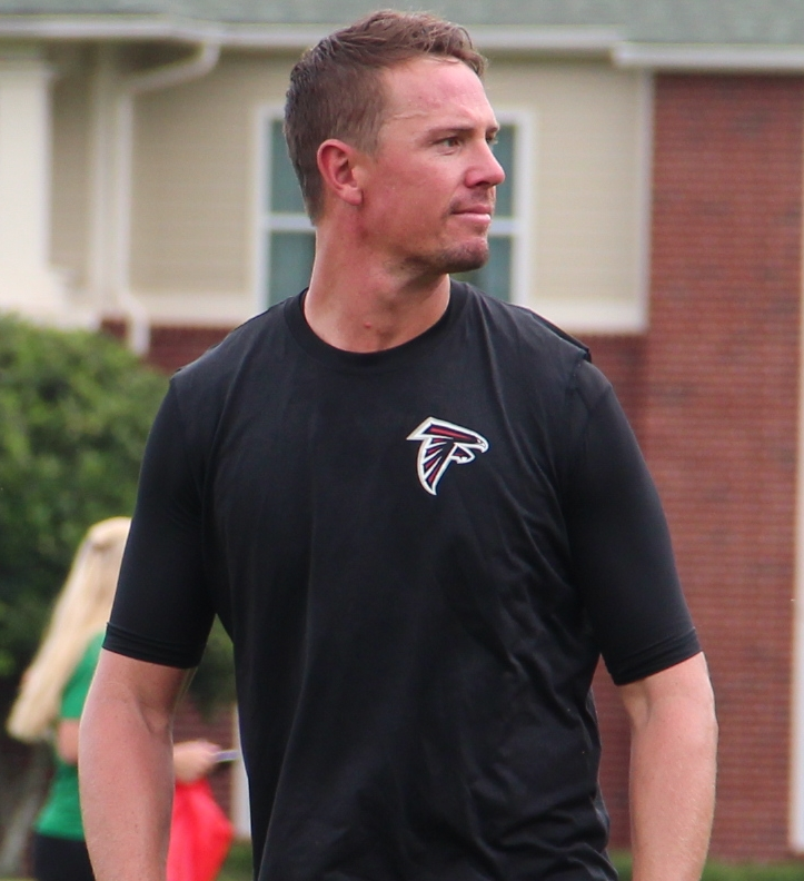 Matt Ryan in 2015